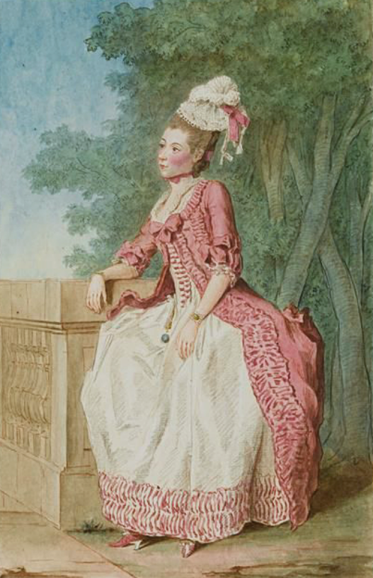 Portrait of Madame de Sainte-Amaranthe, by Louis Caroggis Carmontelle.